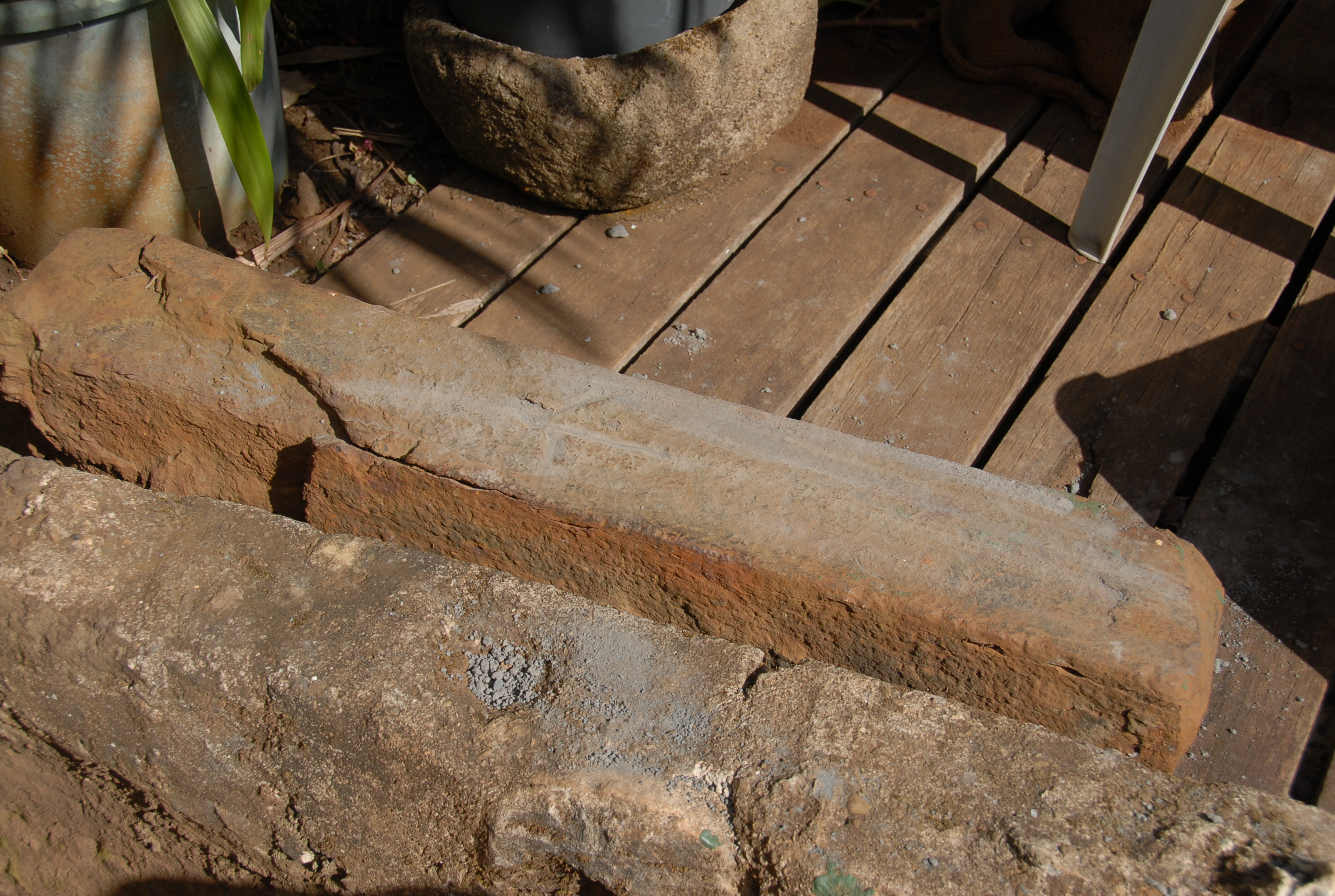 Ballast Iron from HMAS "Bounty"